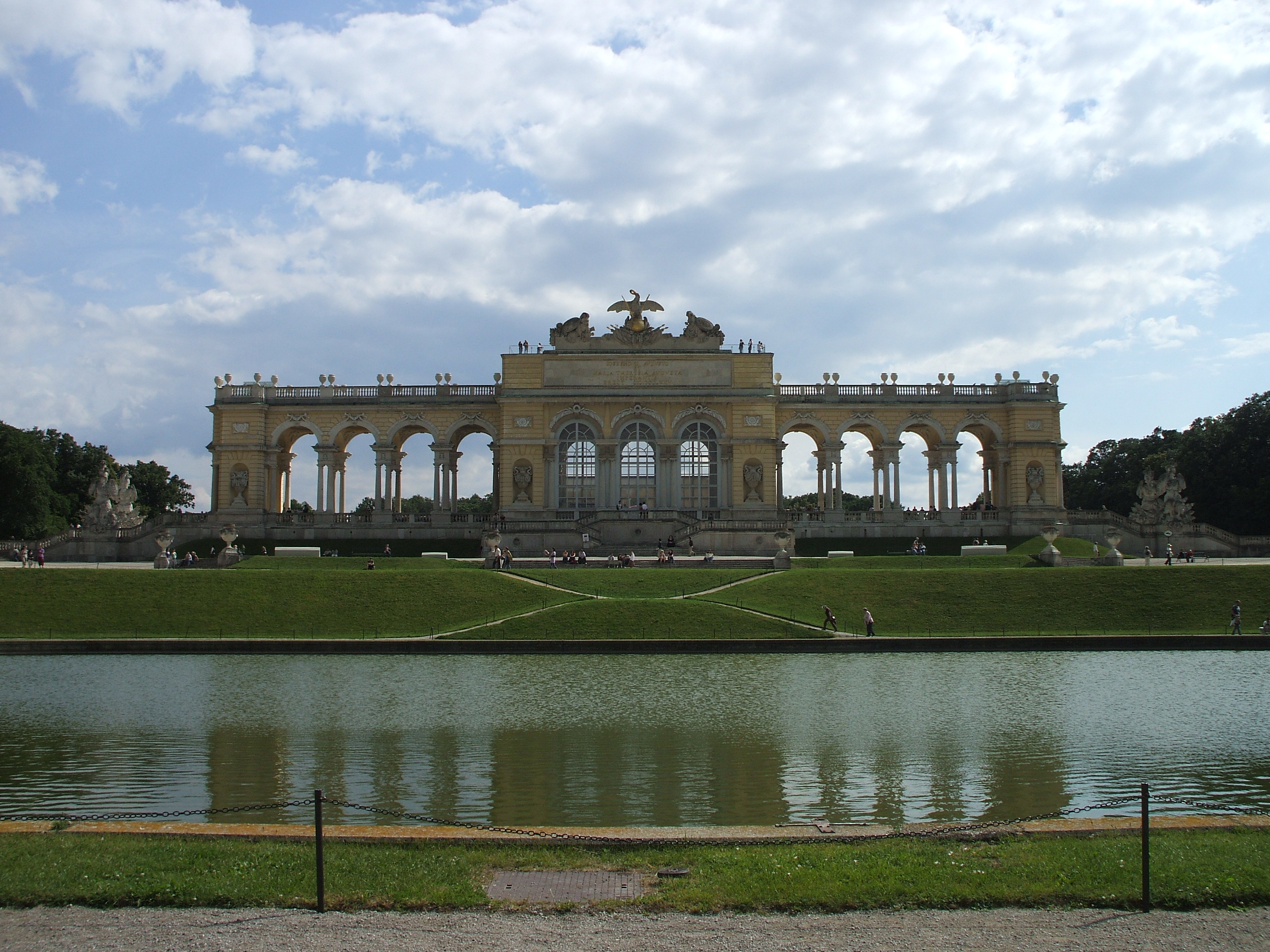 The Gloriette overlooking Schonbrunn Palace, Vienna.